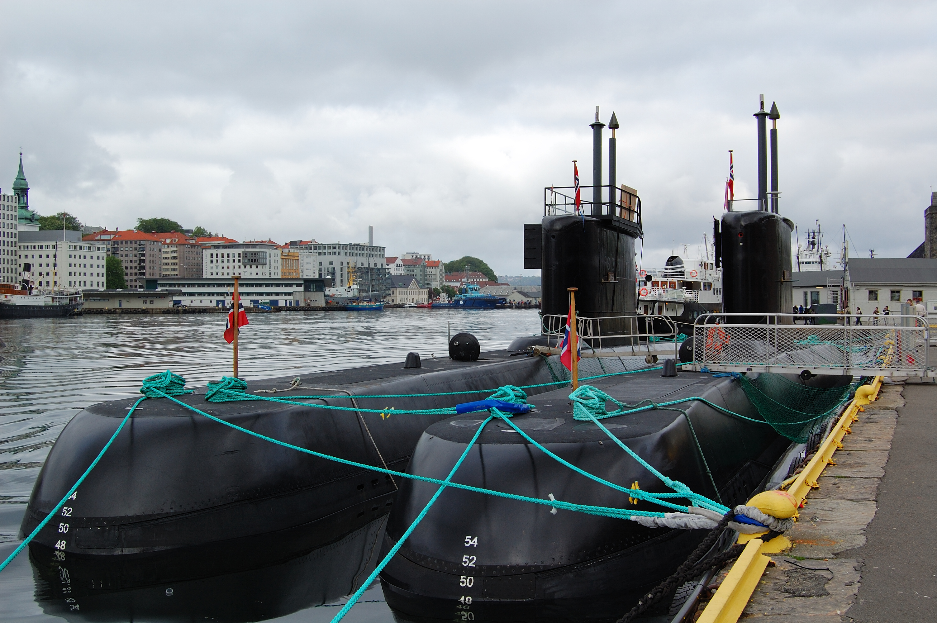 Norwegian Ula-class submarines S304 Uthaug (right) and S305 Uredd (left) in Bergen.